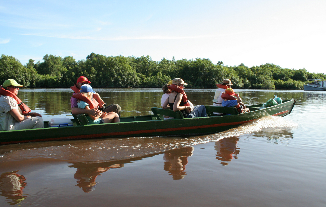 Bigi Pan Nature Reserve, Suriname. Lots of birds in these wetlands.